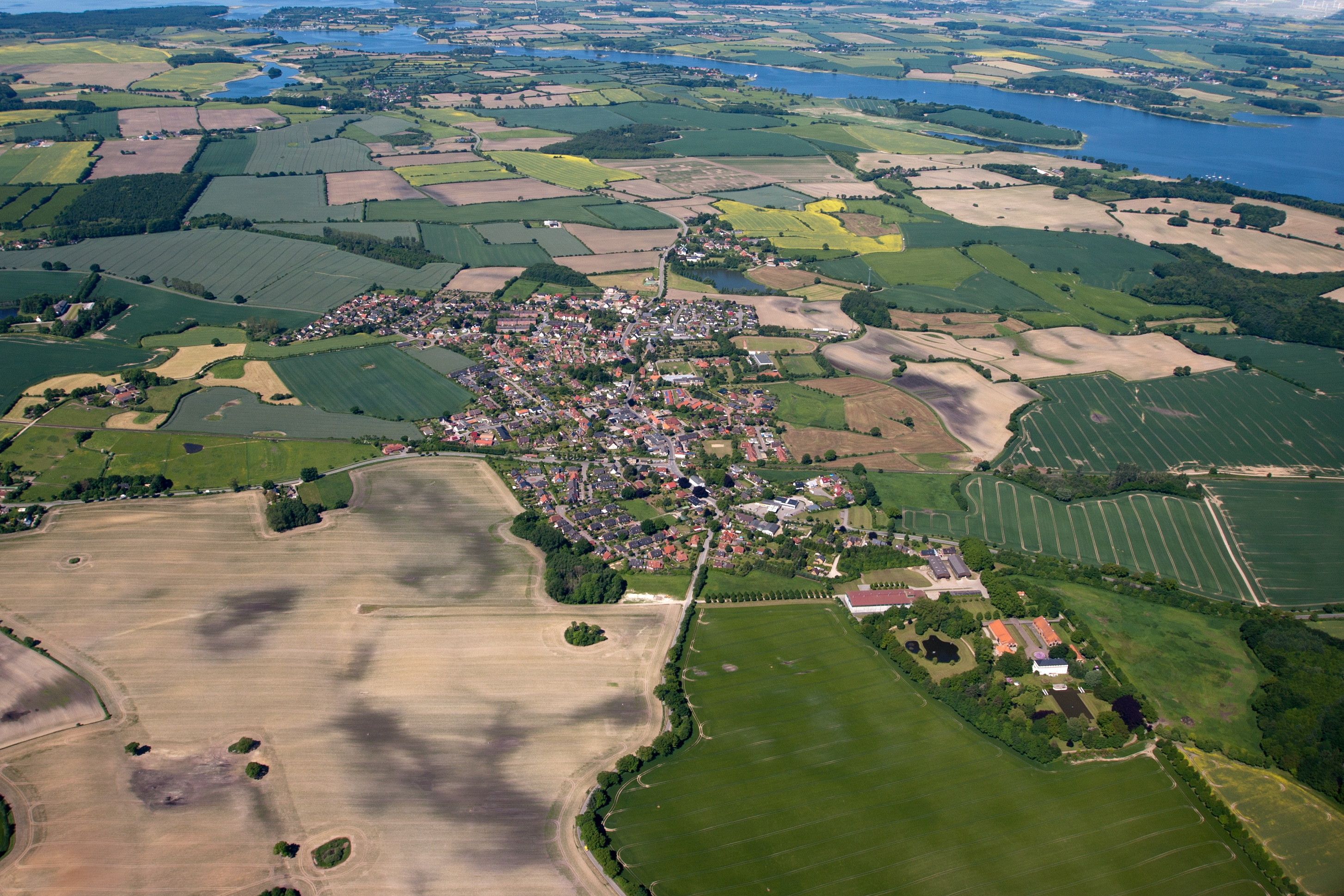 Aerial view of Rieseby